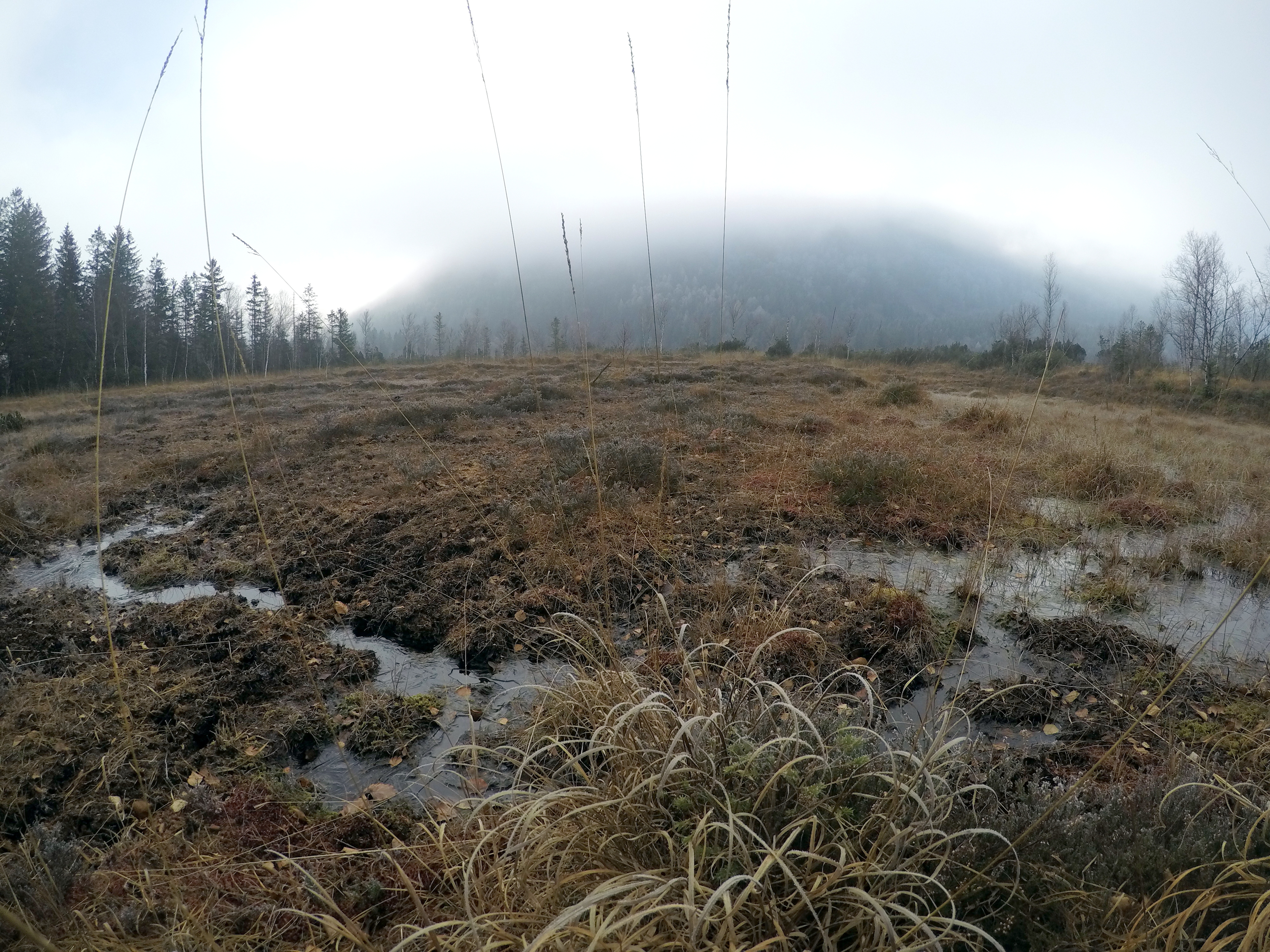 Aurachmoos, Aurach, Bavaria